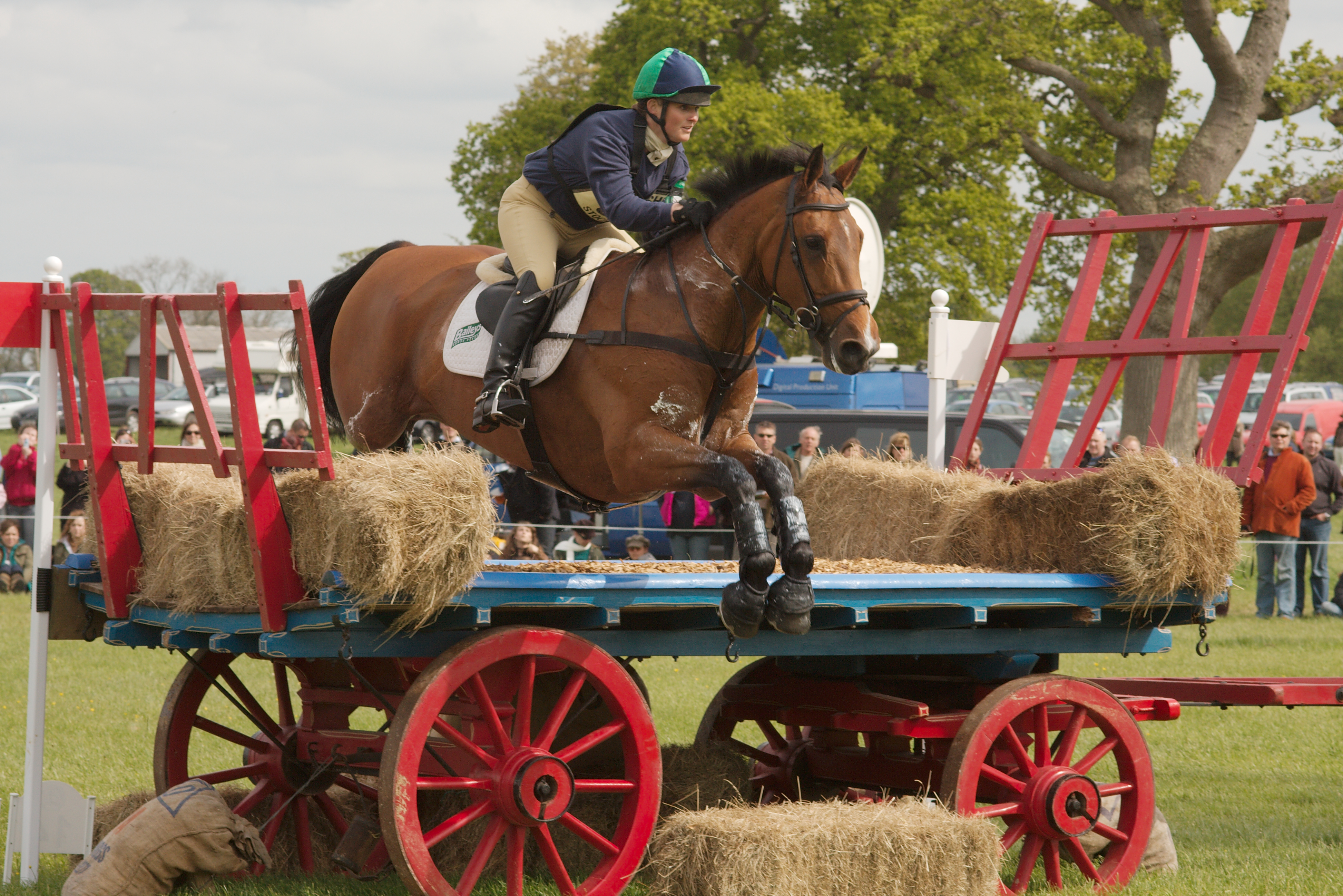 Polly Stockton and Regulus at the Farmyard during the cross-country phase of Badminton Horse Trials 2009.